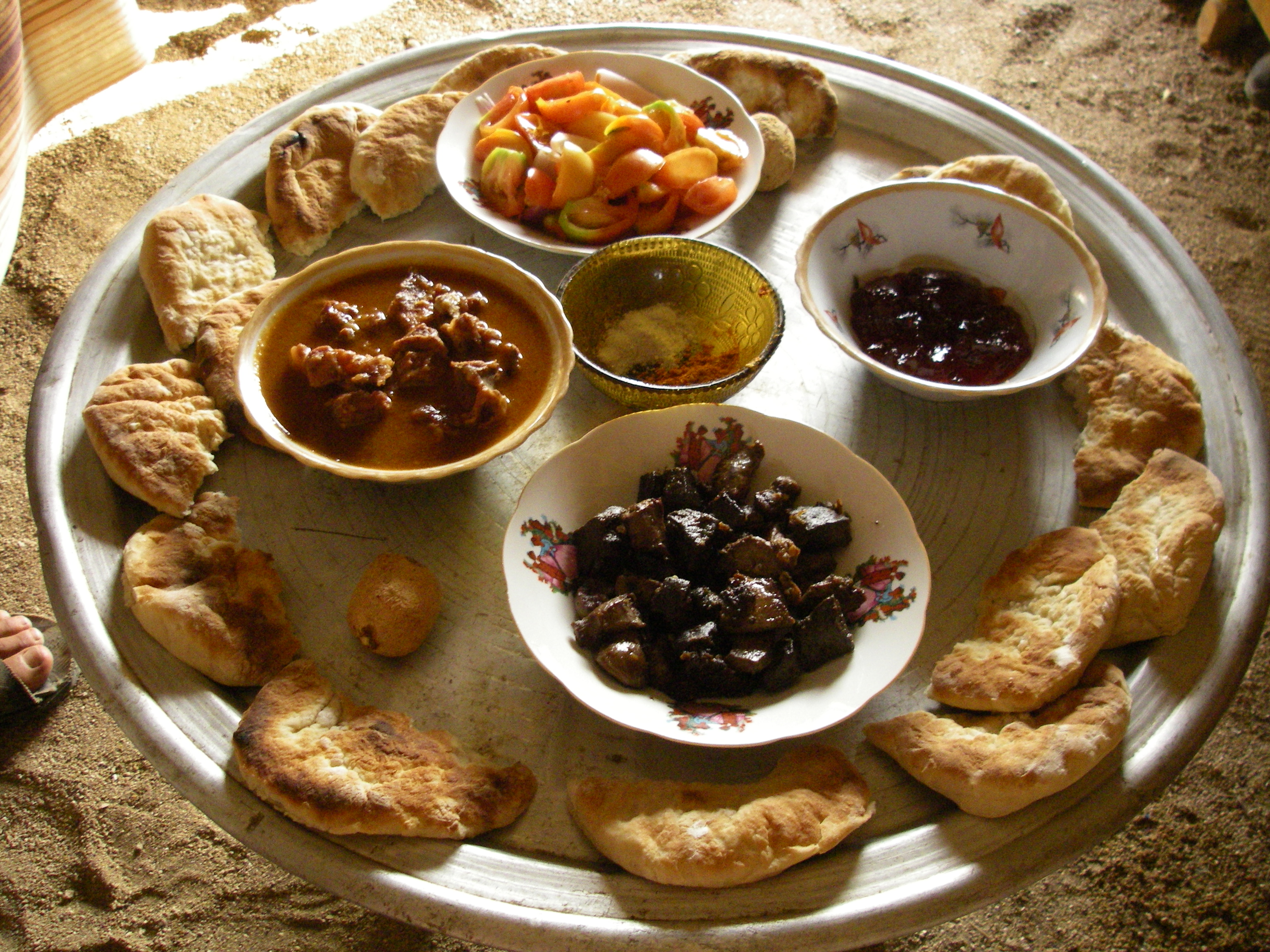 This was the dinner presentation at Toby's friend John Leben's house. It was quite nice for a meal at home, although I still didn't eat much beyond the bread.